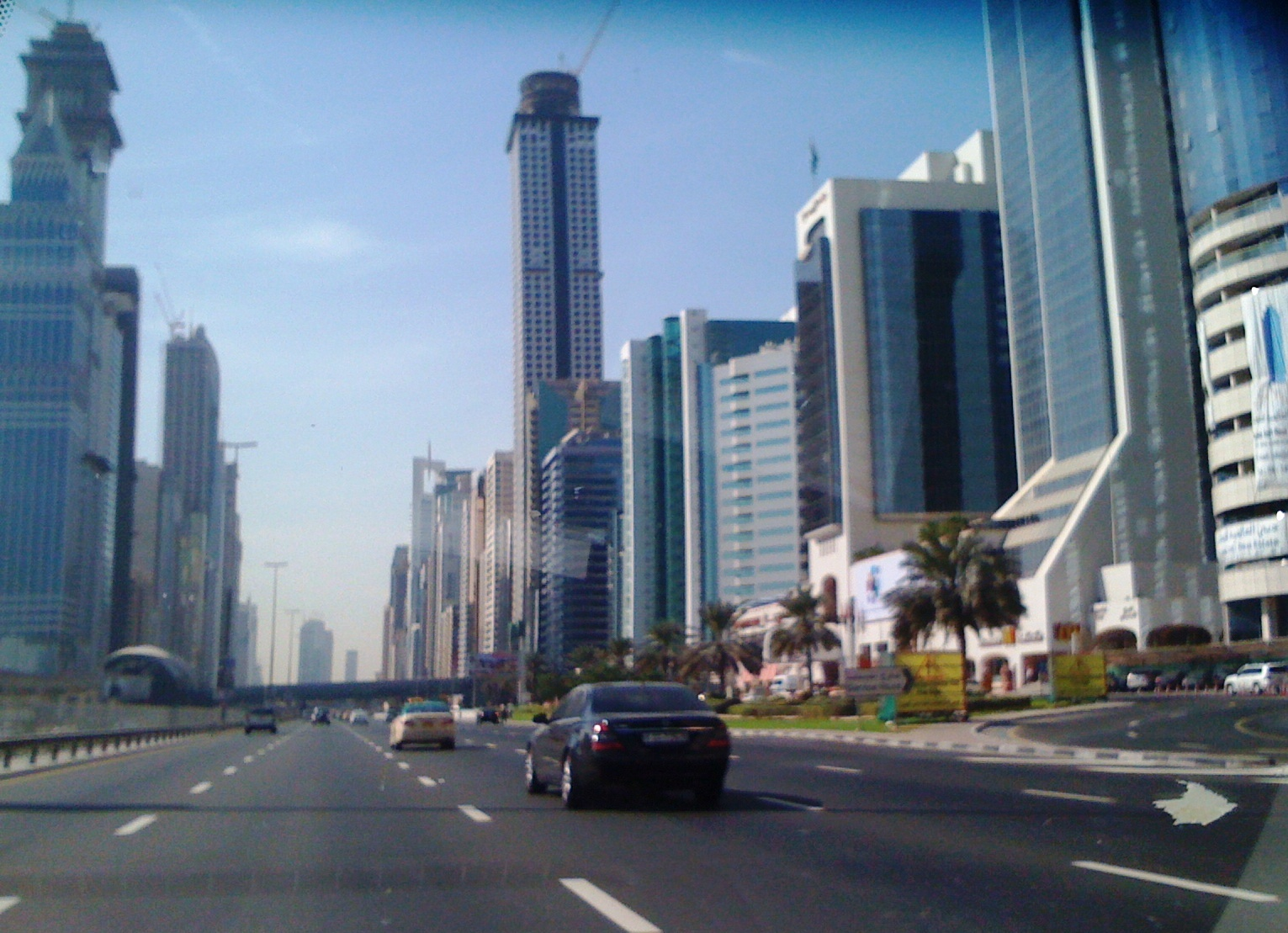 Dubai, UAE.